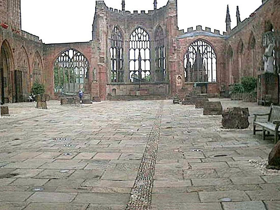 Inside the ruined nave of Coventry Cathedral, looking east to the apsidal chancel